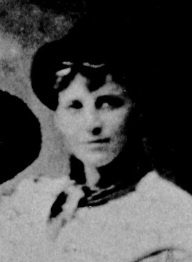 The first US National women's singles tennis champion